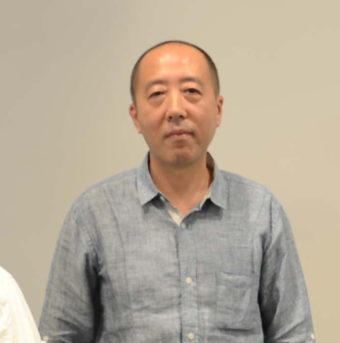 This is a portrait photo of Zhang Dali.